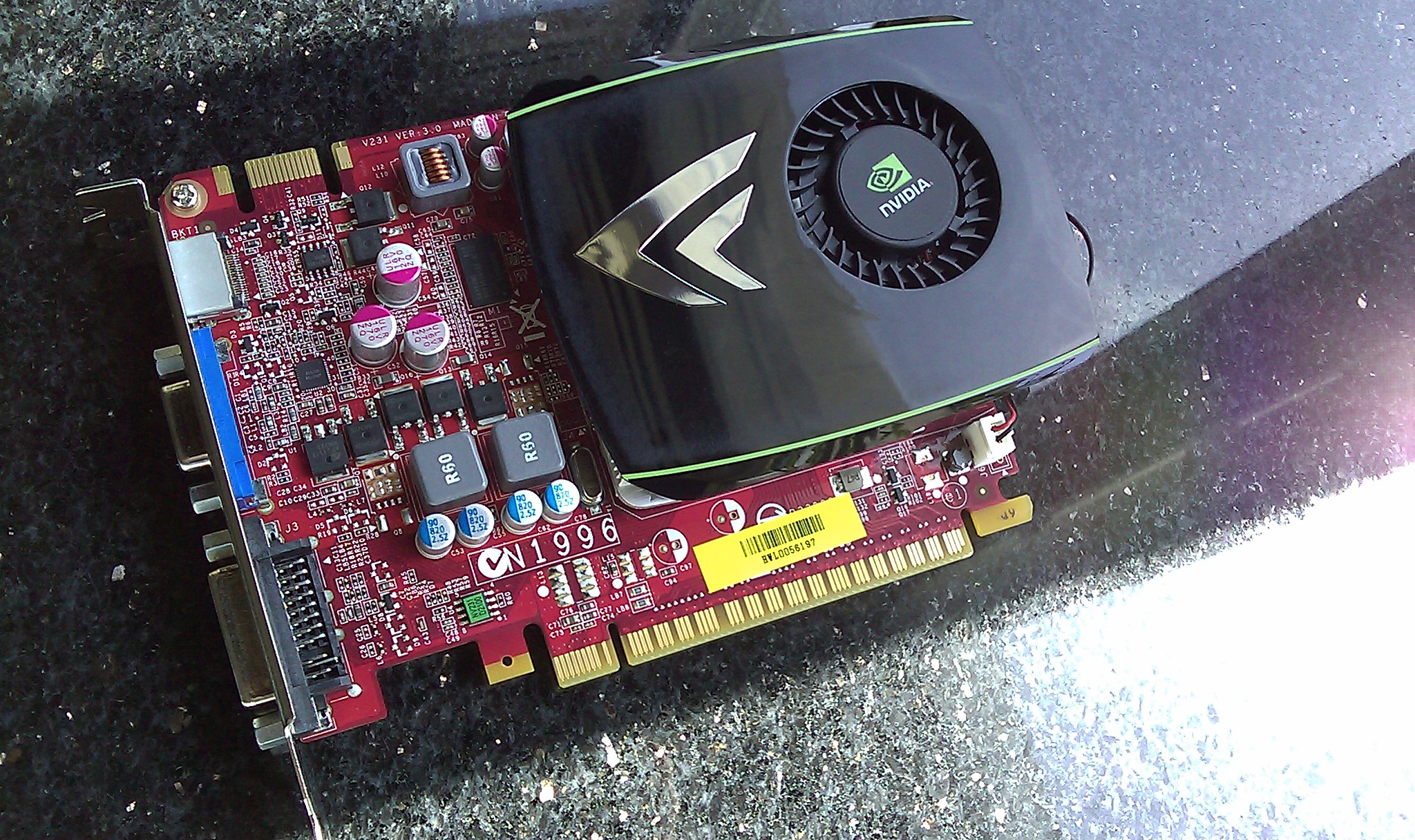 MSI GeForce GT 545 DDR3 OEM